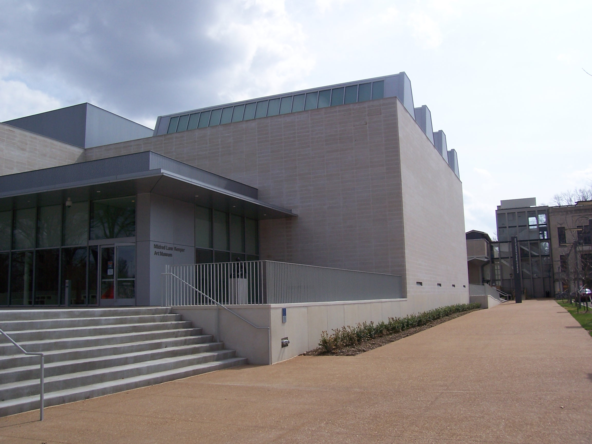 View of Mildred Lane Kemper Art Museum (Washington University in St. Louis), from the Northwest.